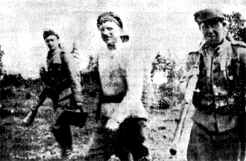 A soldier of the Red Army captured by Danish voluteers during the final battles of Suur-Munamägi.